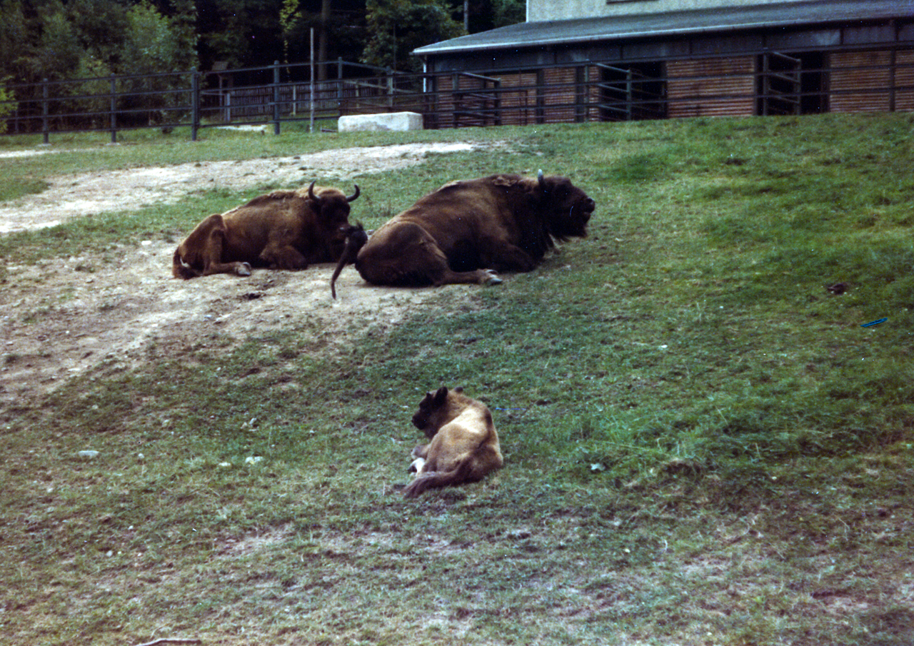 Wisent in the Zoo, Gera 1983